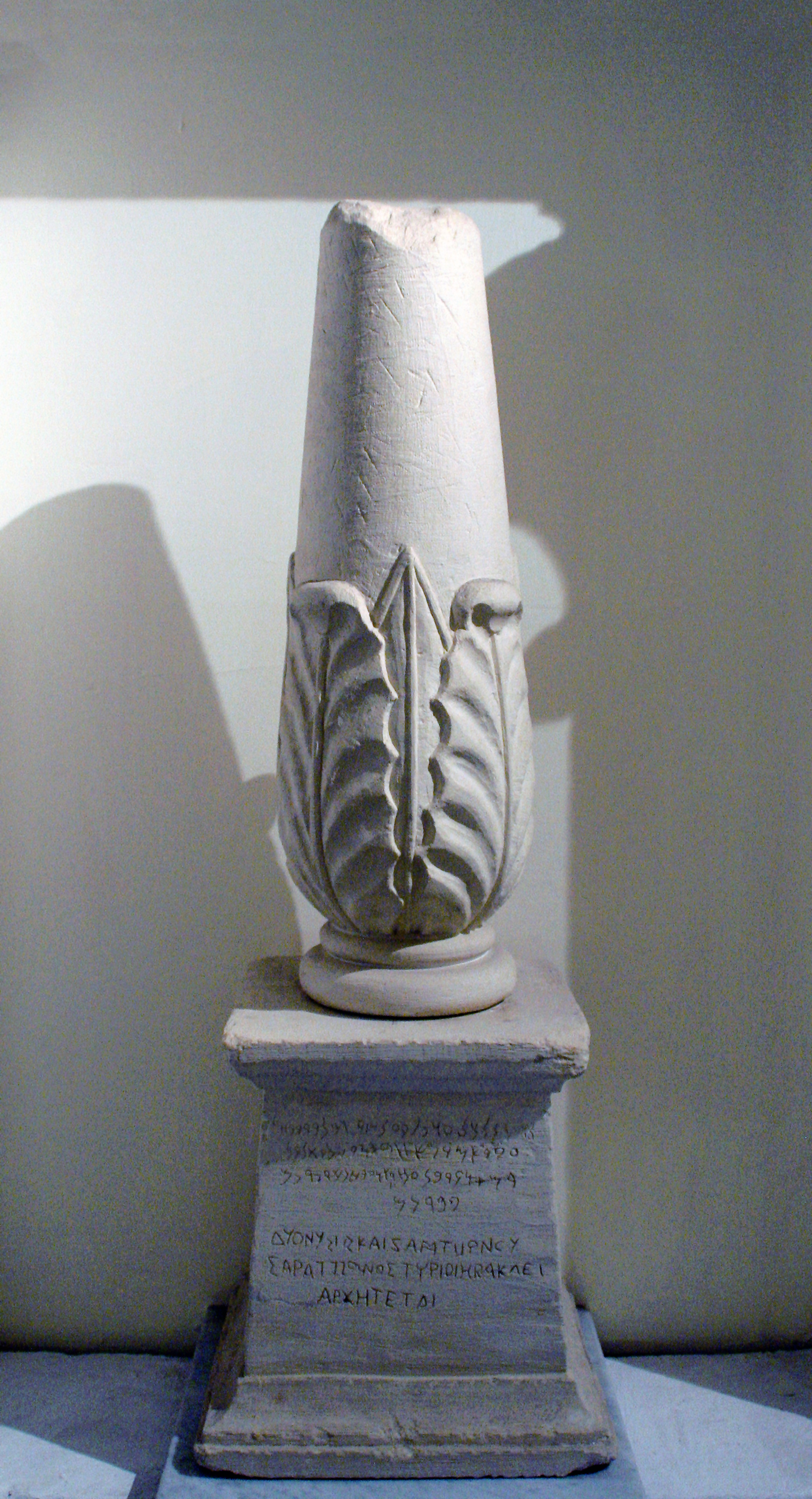 Phoenician Cippus at Ministry of Foreign Affairs, Malta.